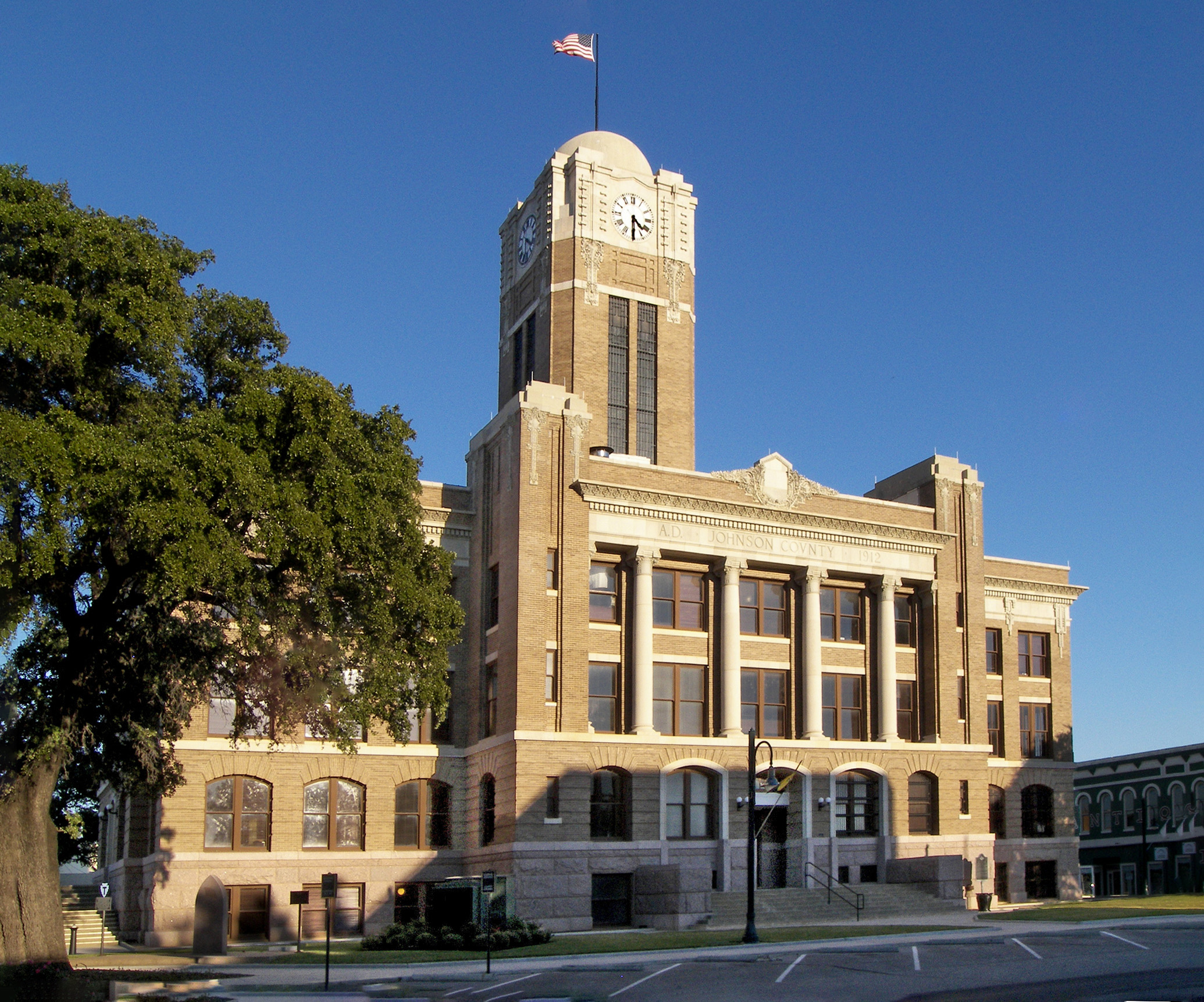 The Johnson County, Texas courthouse located in Cleburne, Texas, United States. The courthouse was listed on the National Register of Historic Places in 1988 and designated a Recorded Texas Historic Landmark in 1999.